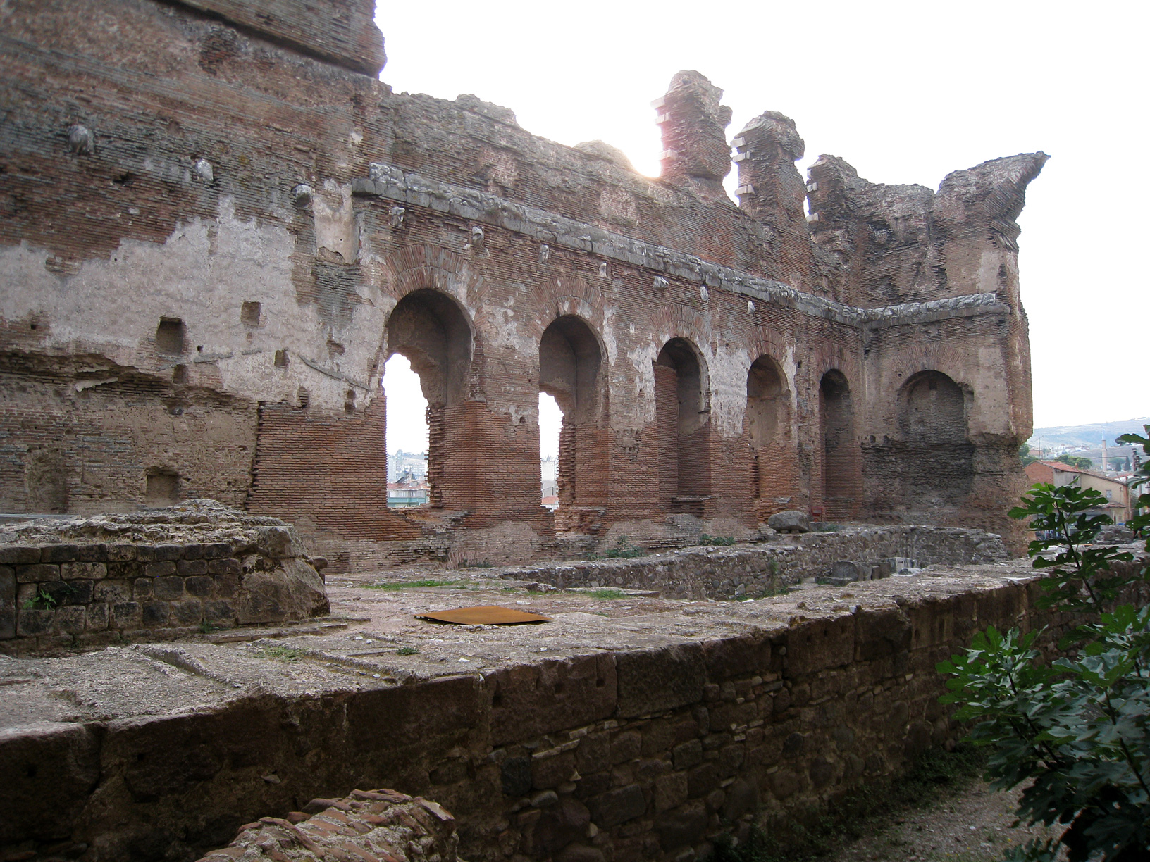 Interior of the Red Basilica, Pergamon, showing the podium and base of the cult statue